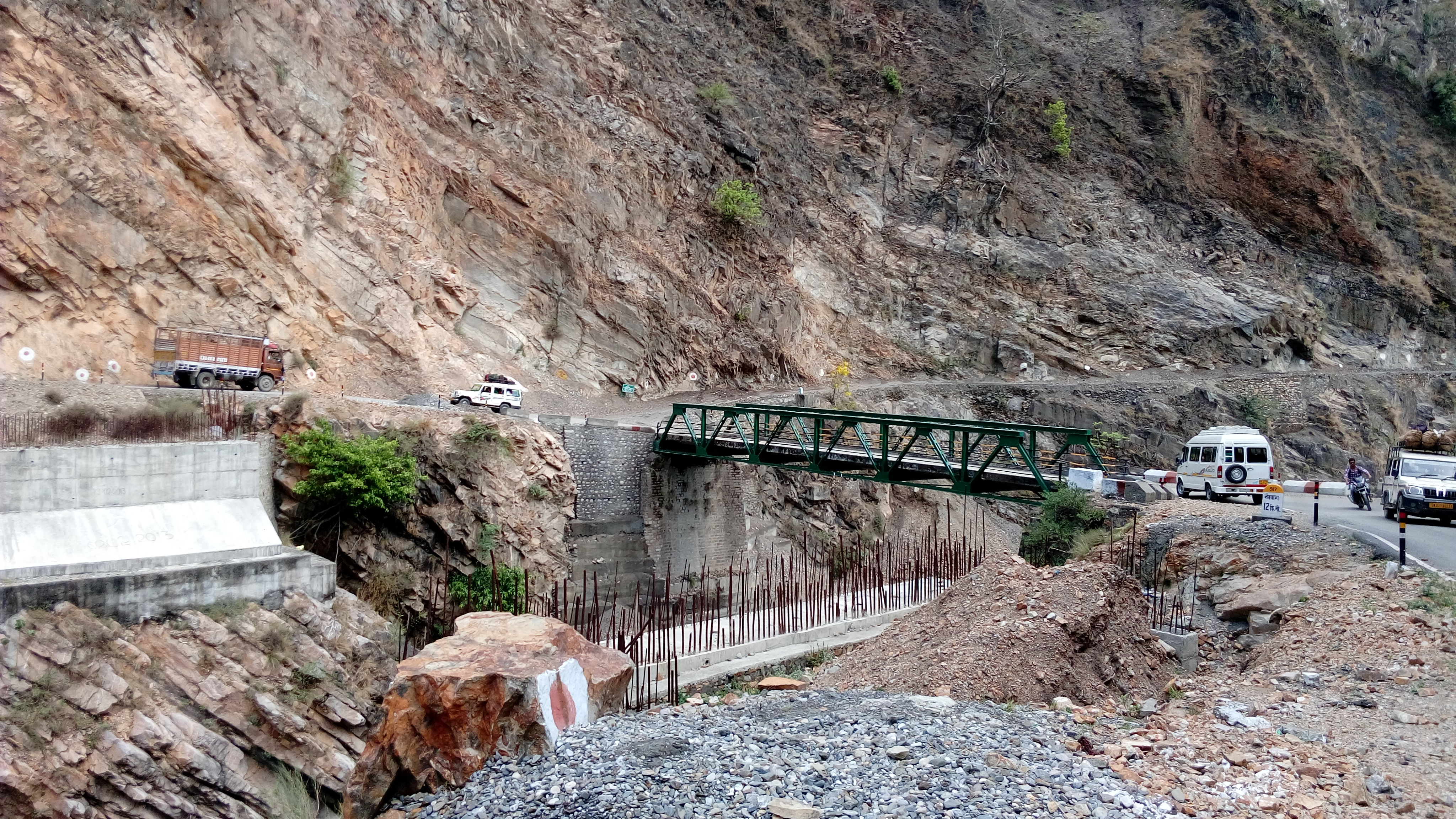 yamuna bridge mussoorie